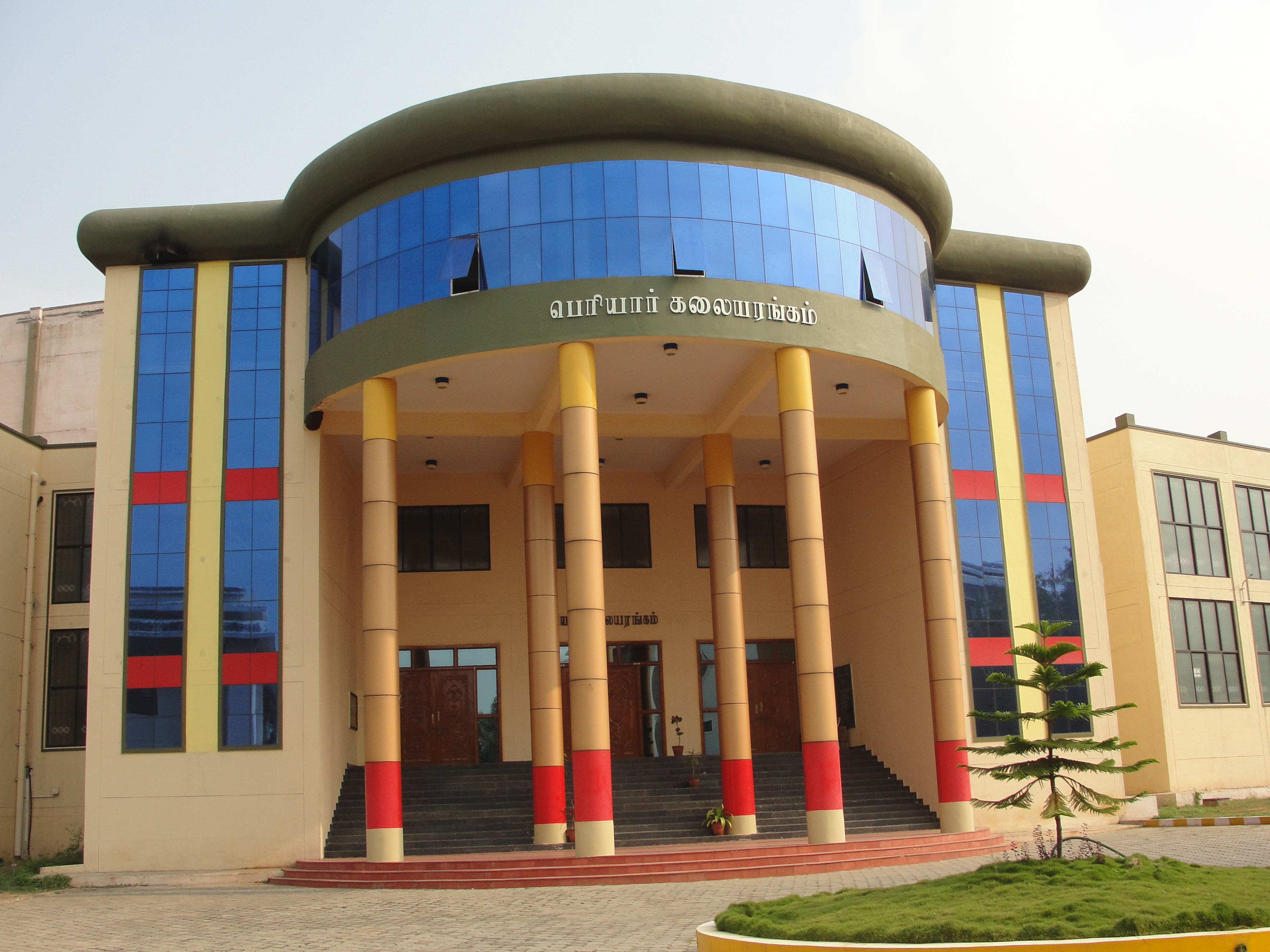 A photo of Periyar Hall, Periyar University, Salem, Tamil Nadu, India.